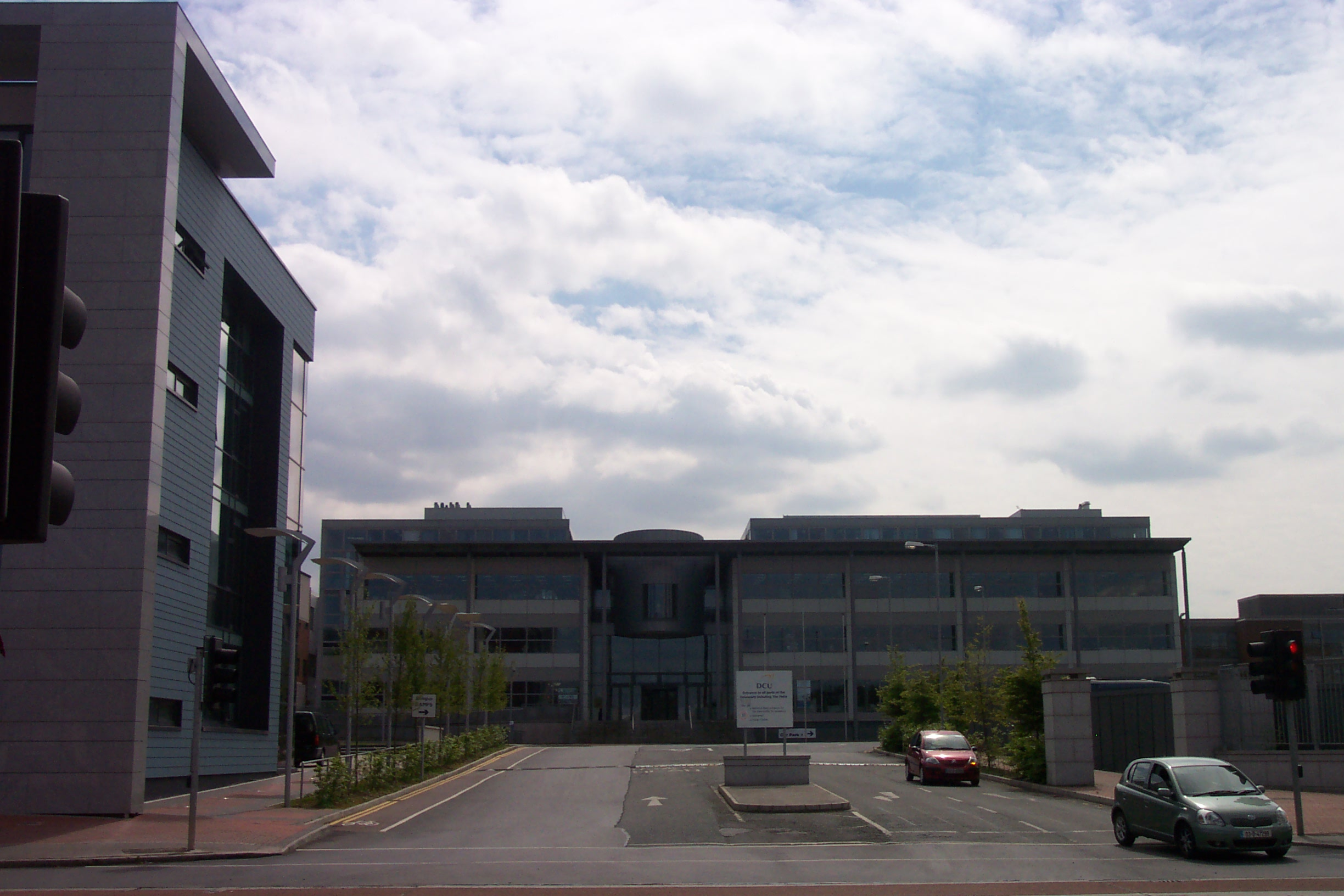 Dublin City University - Collins Avenue Entrance This photograph was taken by Beta in June 2005.